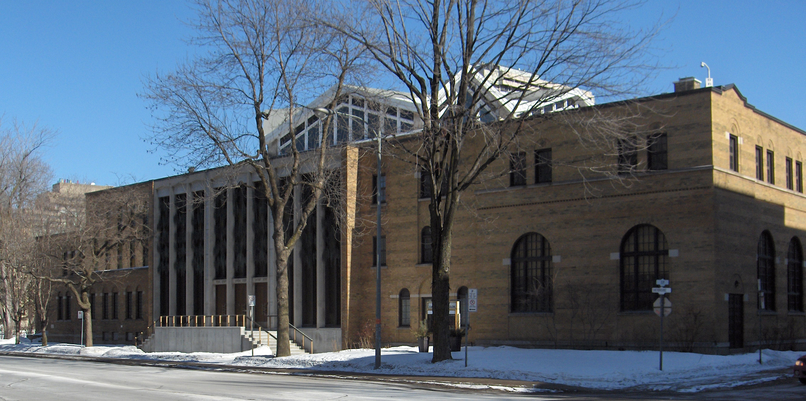 Temple Emanu-El-Beth Sholom (Westmount near Montreal, Canada) It is the oldest Reform synagogue in Canada.